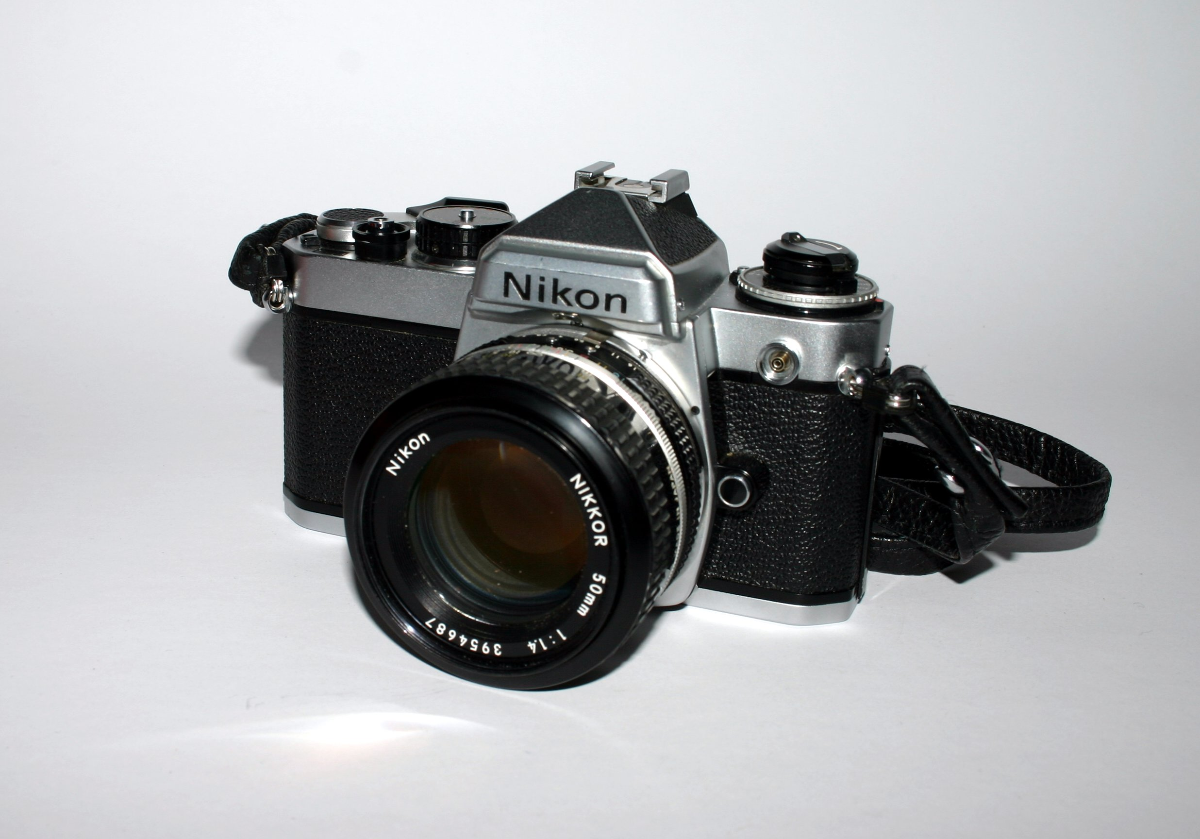 A Nikon FE, an analogue single-lens reflex camera with Nikkor 50mm f/1.4 lens. Location: Wikipedia Workshop Cologne 2006